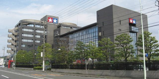 The building name： The Tamiya main office（Ondabara, Suruga-ku, Shizuoka-shi） Photography day： April 22, 2007 Niba photographs it from an opposite side of a road